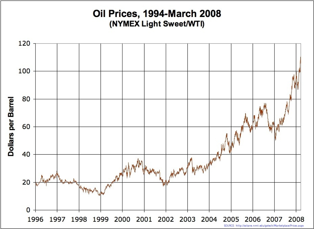 WTI/Light Sweet crude chart of daily price quotes from NYMEX, updated to March 2008. Created using and Gimp 2.4.3 on an Apple MacBook Pro. FIle dimensions 1051x768.